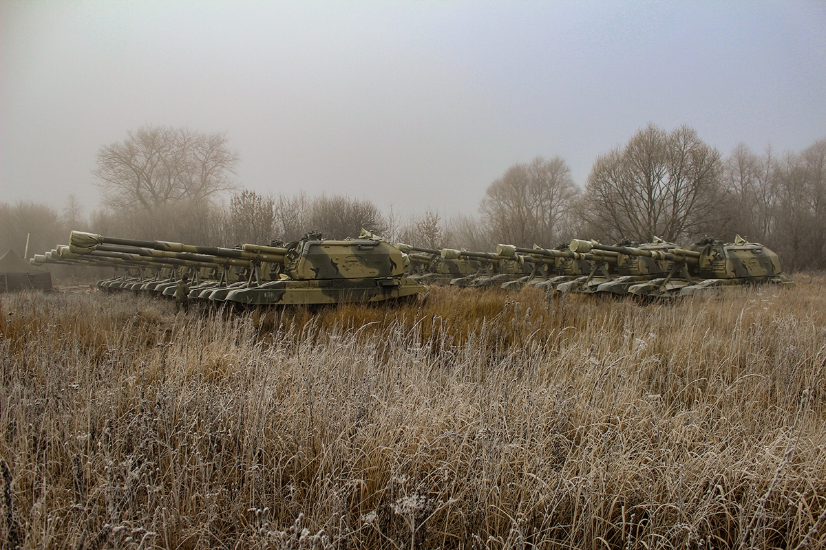 2S19M1 Msta-S self-propelled howitzer.